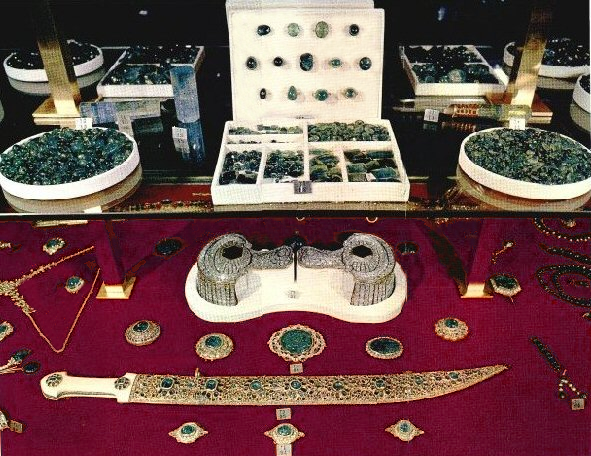 Afsharid Empire Jewelry of Nader Shah.